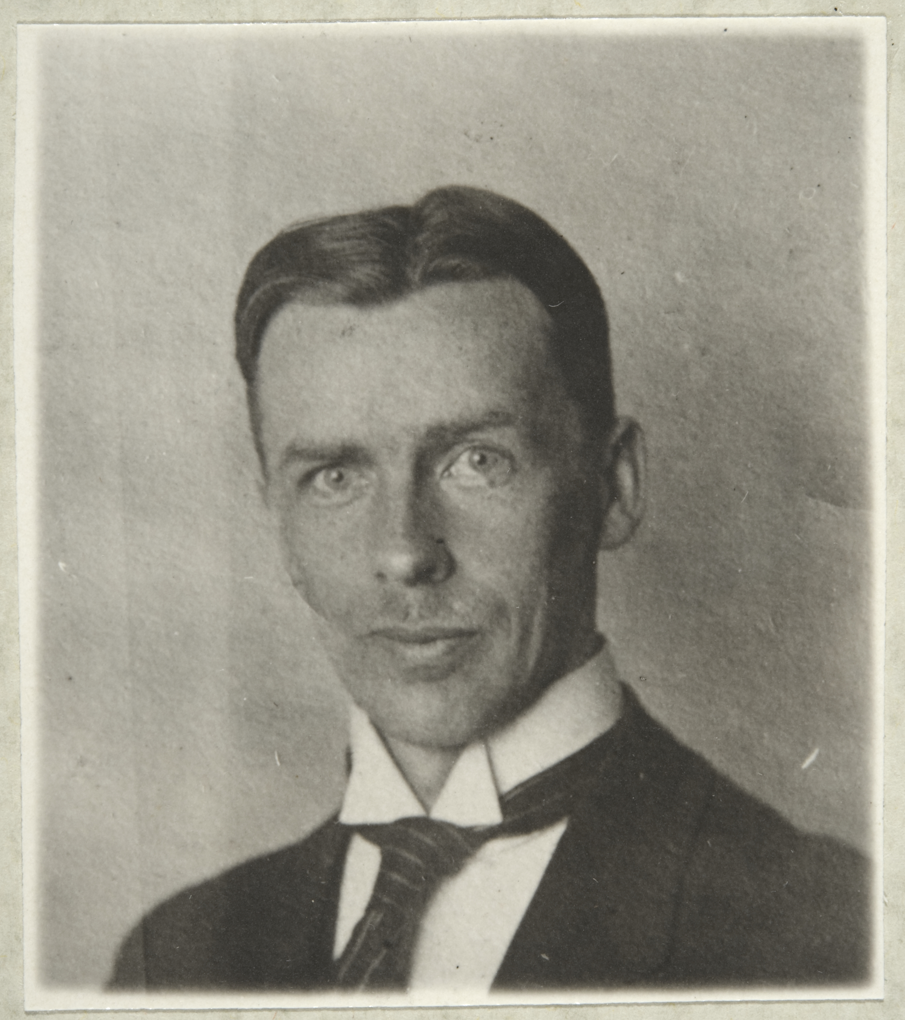 Photograph of the Finnish linguist Jalo Kalima (1884–1952).